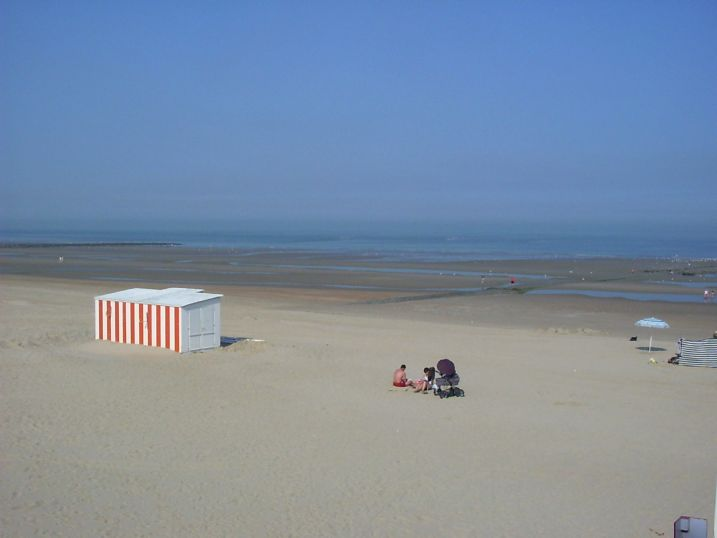 Koksijde Beach